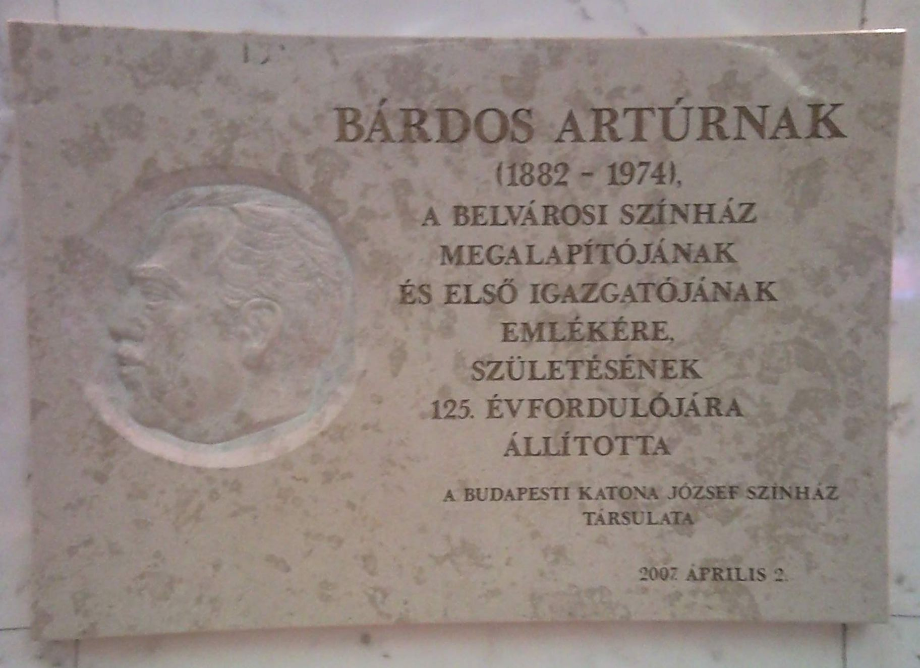 Artúr Bárdos commemorative plaque in Budapest District V, Katona József Theatre, Petőfi Sándor Street No 8.